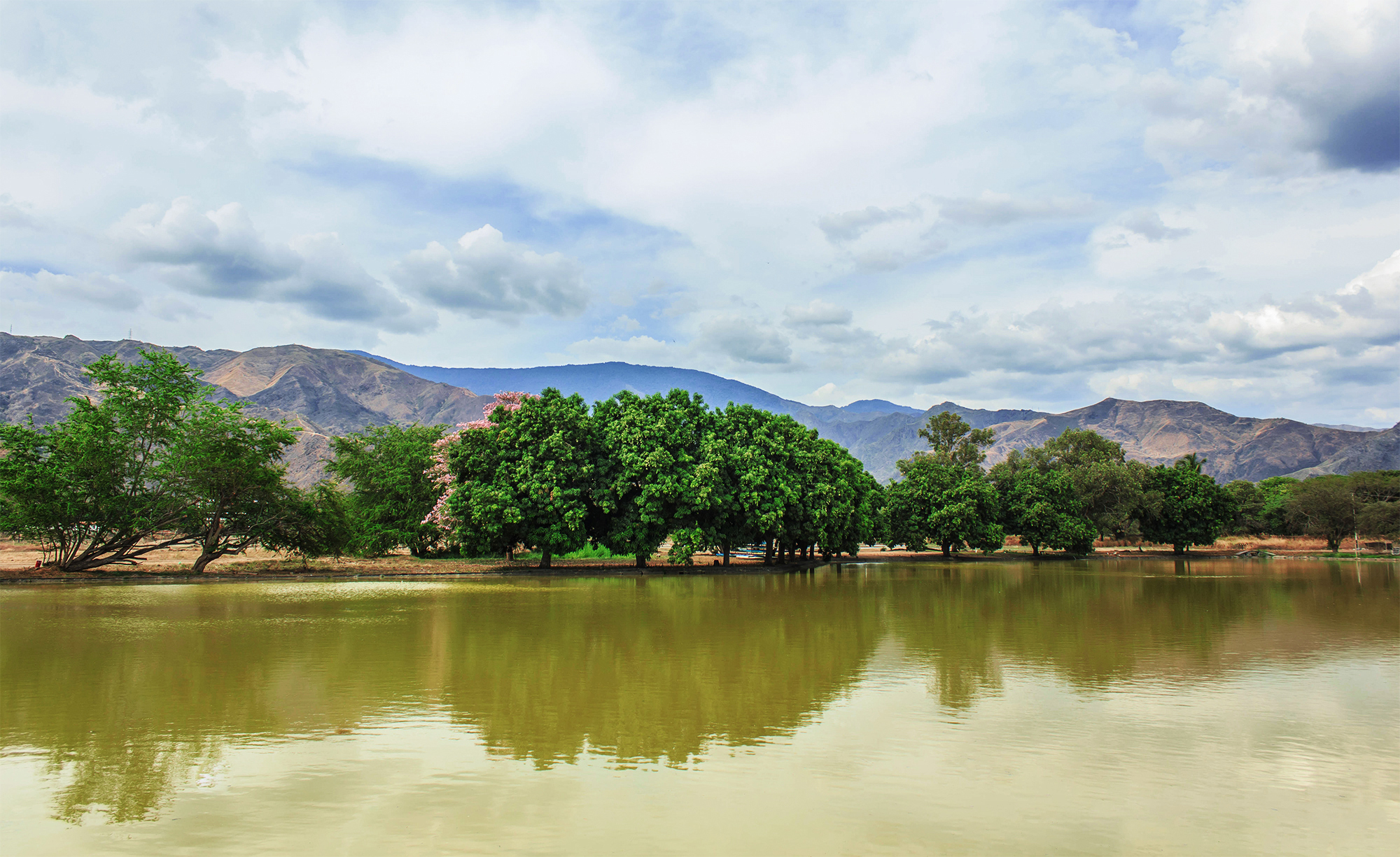 Maracay, Edo. Aragua